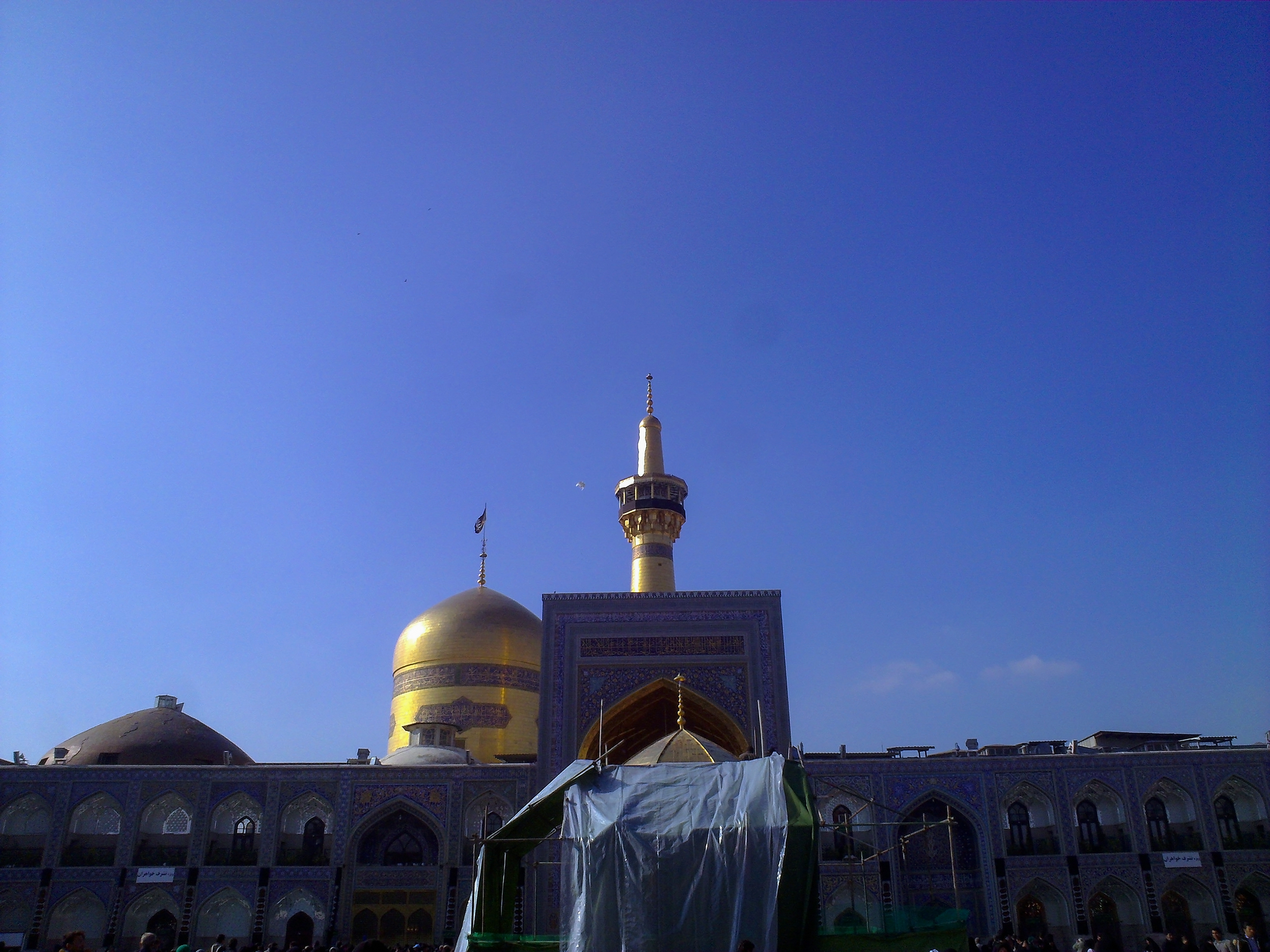 ‘Alī ibn Mūsā al-Rezā (Arabic: علي بن موسى الرضا), also called abu al-Hasan, Ali al-Reza (c. 29 December 765 – 23 August 818)[2] or in Persia (Iran) as Imam Reza (Persian: امام رضا), was a descendant of the Prophet Muhammad and the eighth Shia Imam after his father Musa al-Kadhim and before his son Muhammad al-Jawad. He was an Imam of knowledge according to the Zaydi (Fiver) Shia school and Sufis.